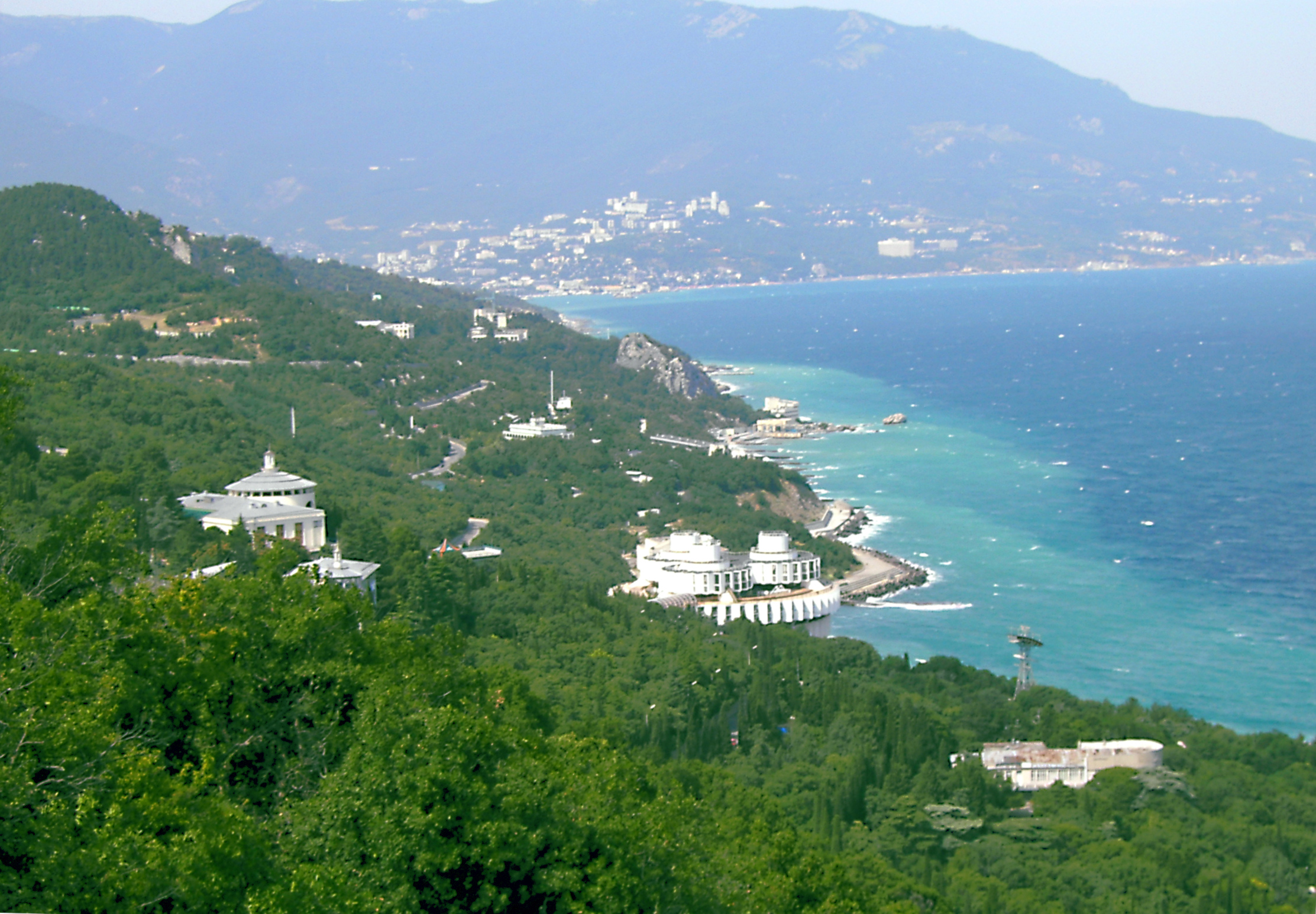 View of Yalta from the Tsar's Path.